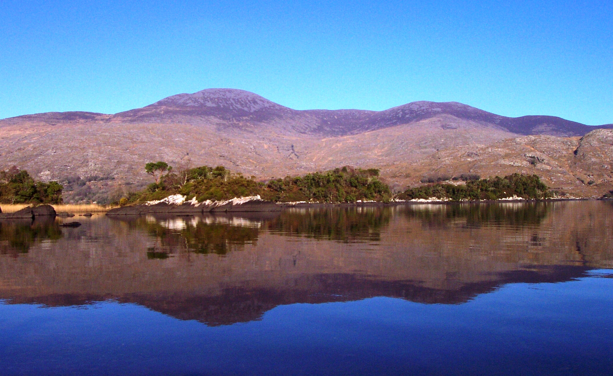 January Morning at the Upper Lake, Killarney County Kerry with view of Purple mountain.